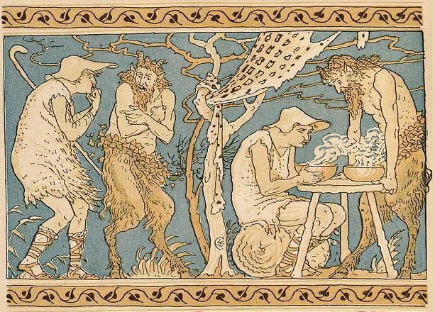 Walter Crane's illustration of the fable of "The Satyr and the Peasant" from Baby's Own Aesop (London, 1887)